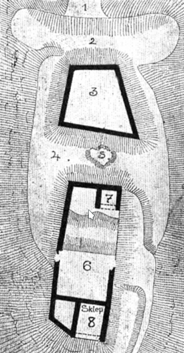 Velešov – půdorys hradu publikovaný roku 1883; Popis: 1 – sedlo, 2 – první příkop, 3 – předhradí, 4 – druhý příkop, 5 – skalisko, 6 – hradní jádro, 7 – věž, 8 – palác